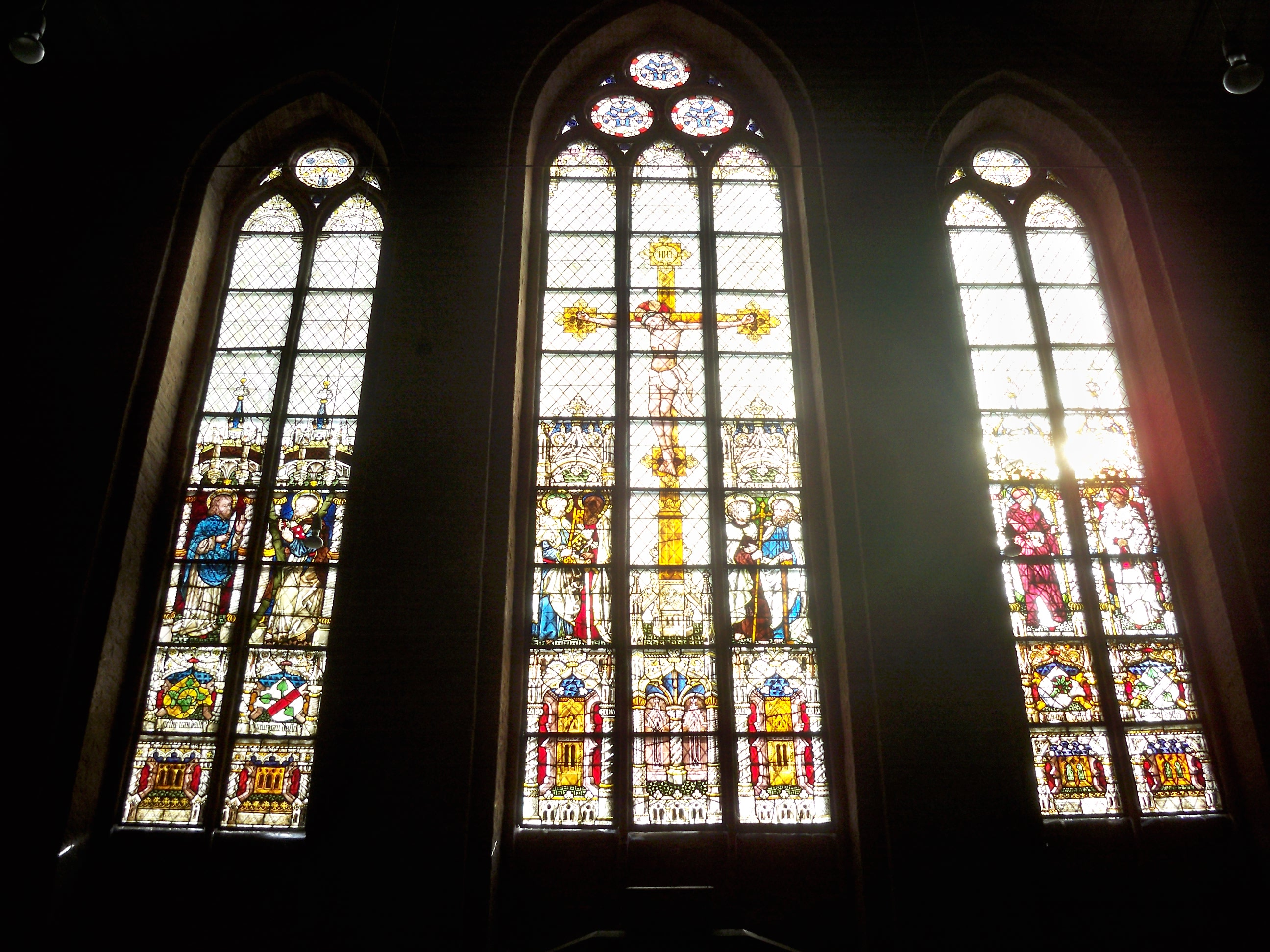 Kloster Neuendorf, Gardelegen, Saxony-Anhalt, stained glass windows on eastern side (ca. 1500)